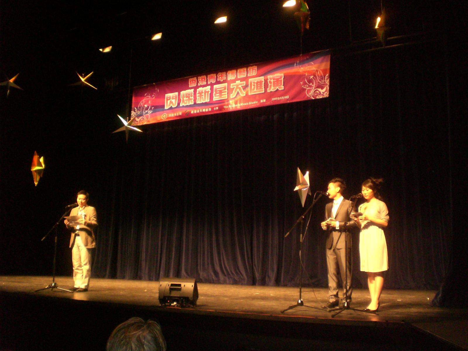 2009年5月10日, 柴灣青年發展中心 試業